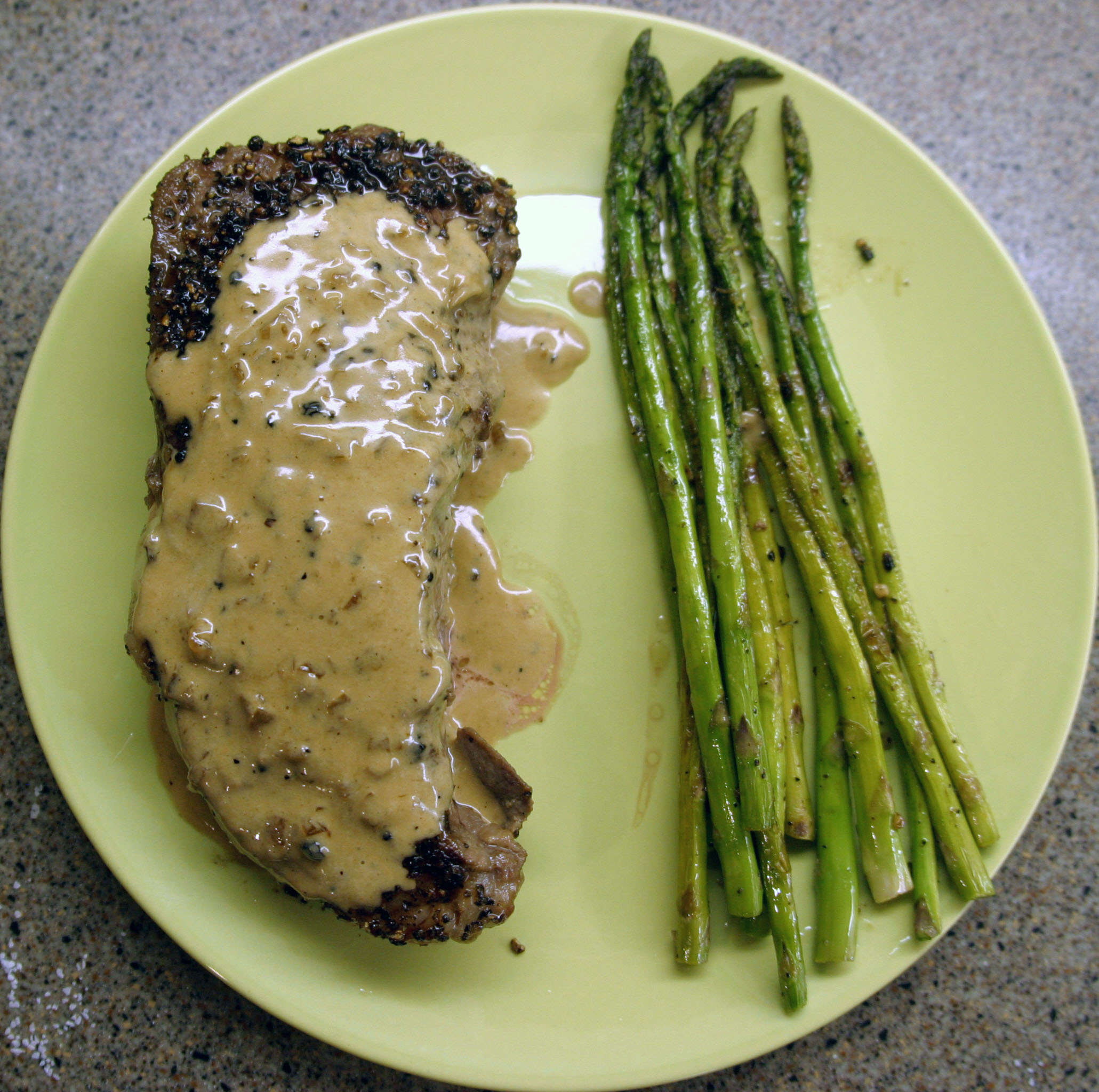 A plate of homemade steak au poivre topped with cognac sauce, with sauteed asparagus. Photo taken in Riverside, Orange County, California, United States, with a Canon EOS 10D digital camera.